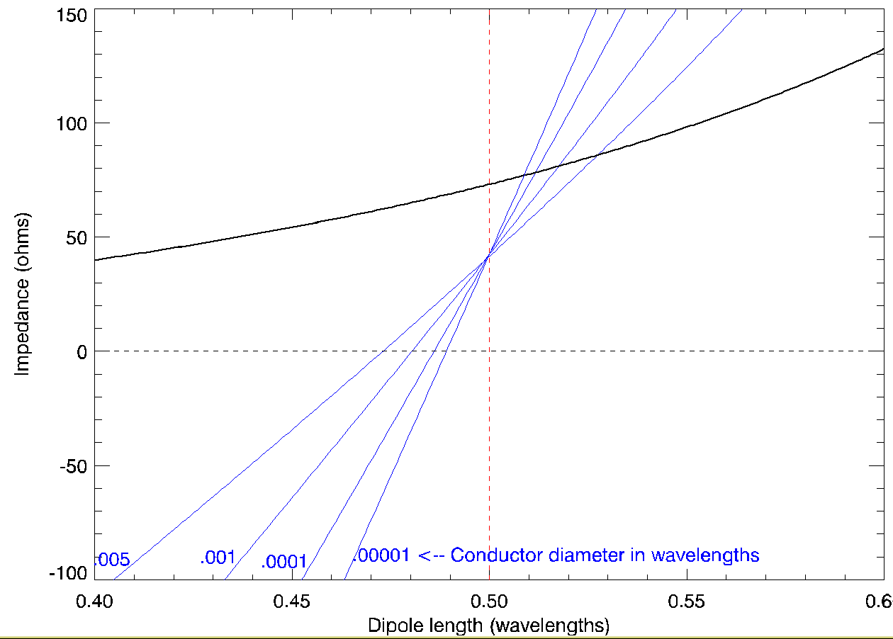 Driving point impedance of dipole antenna (black real, blue imaginary) with conductor diameters as shown and length 0.4-.6 wavelengths. Computed using induced EMF method.